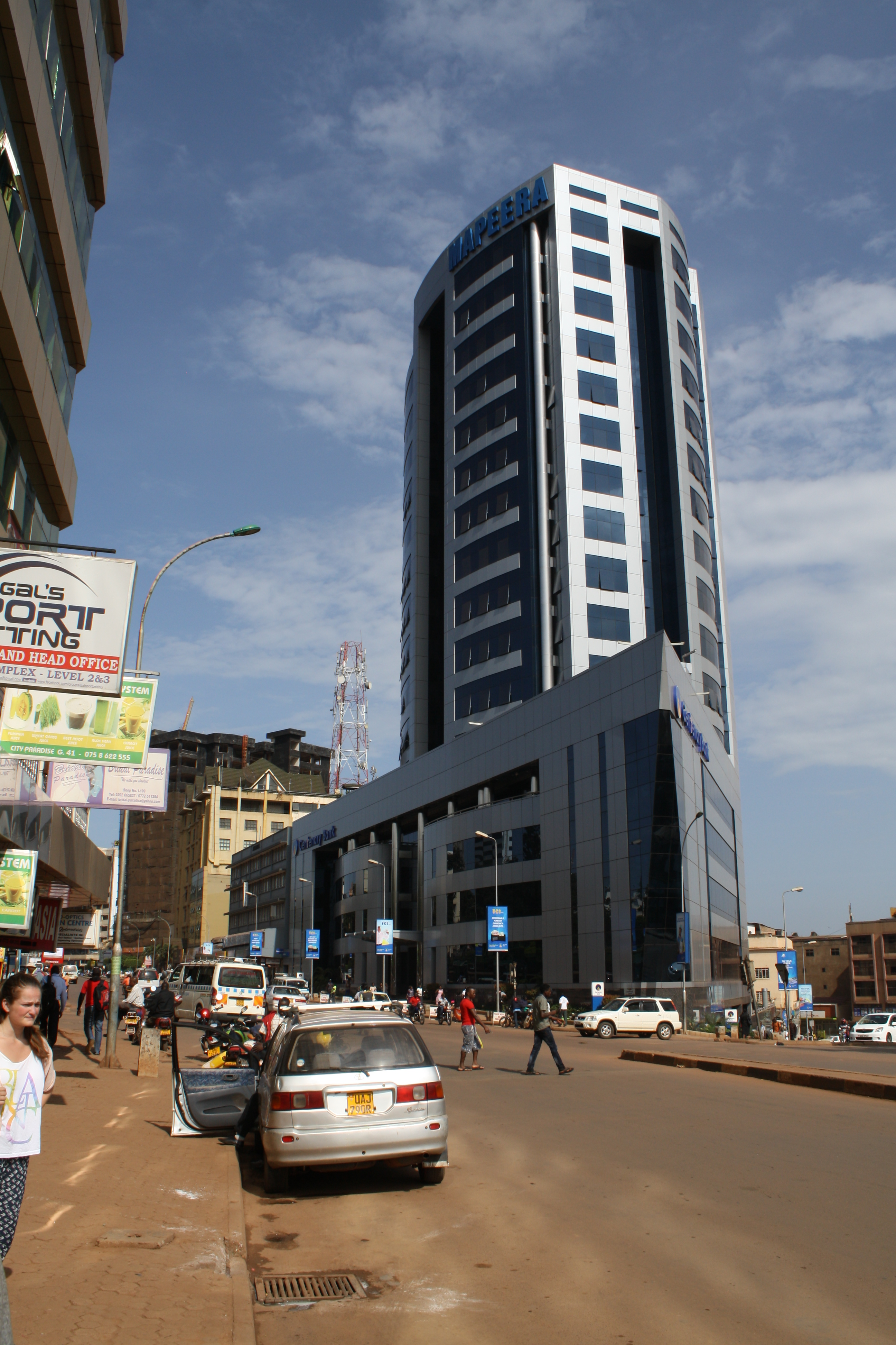 One of several fancy bank buildings